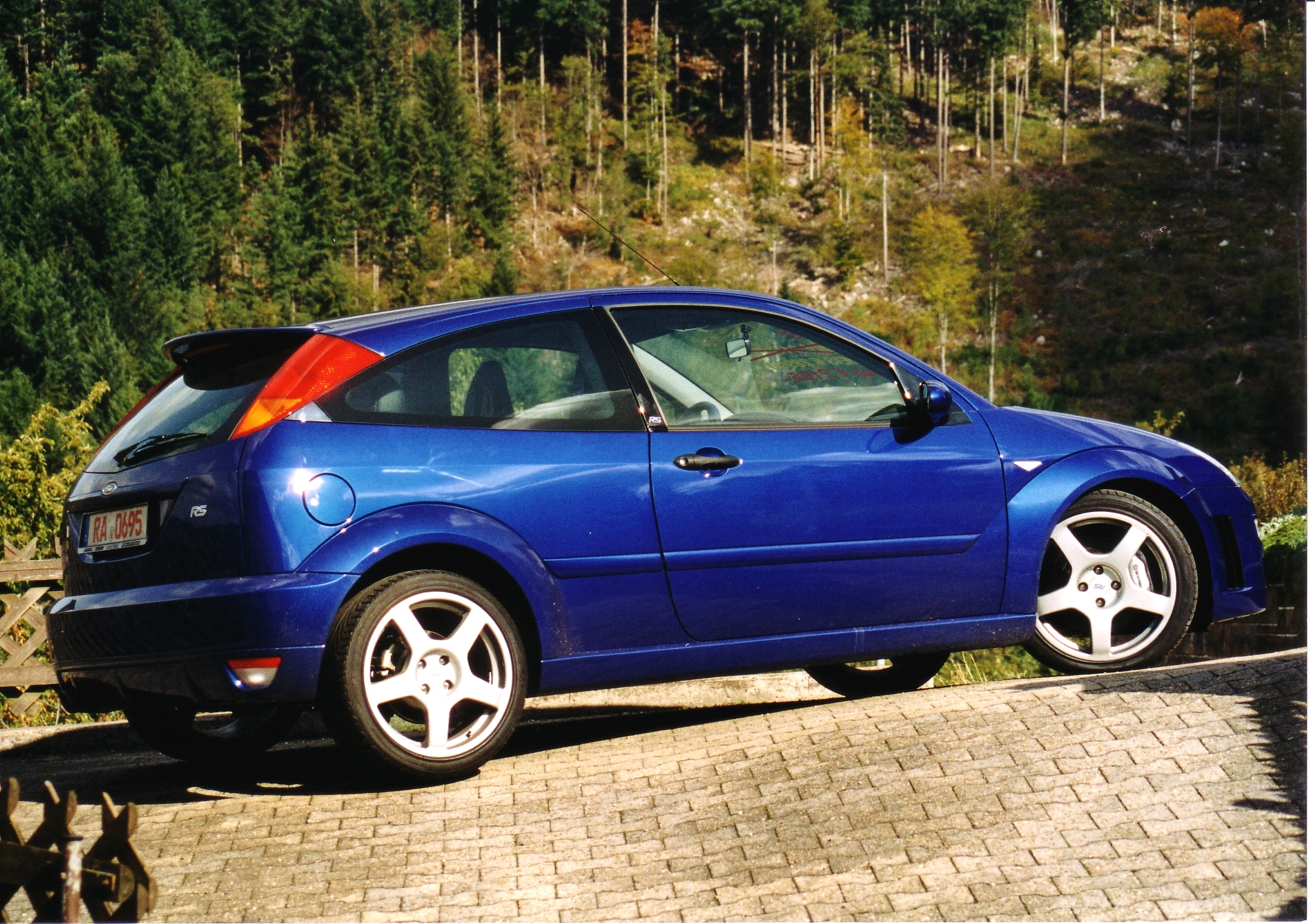 Ford Focus RS 2003